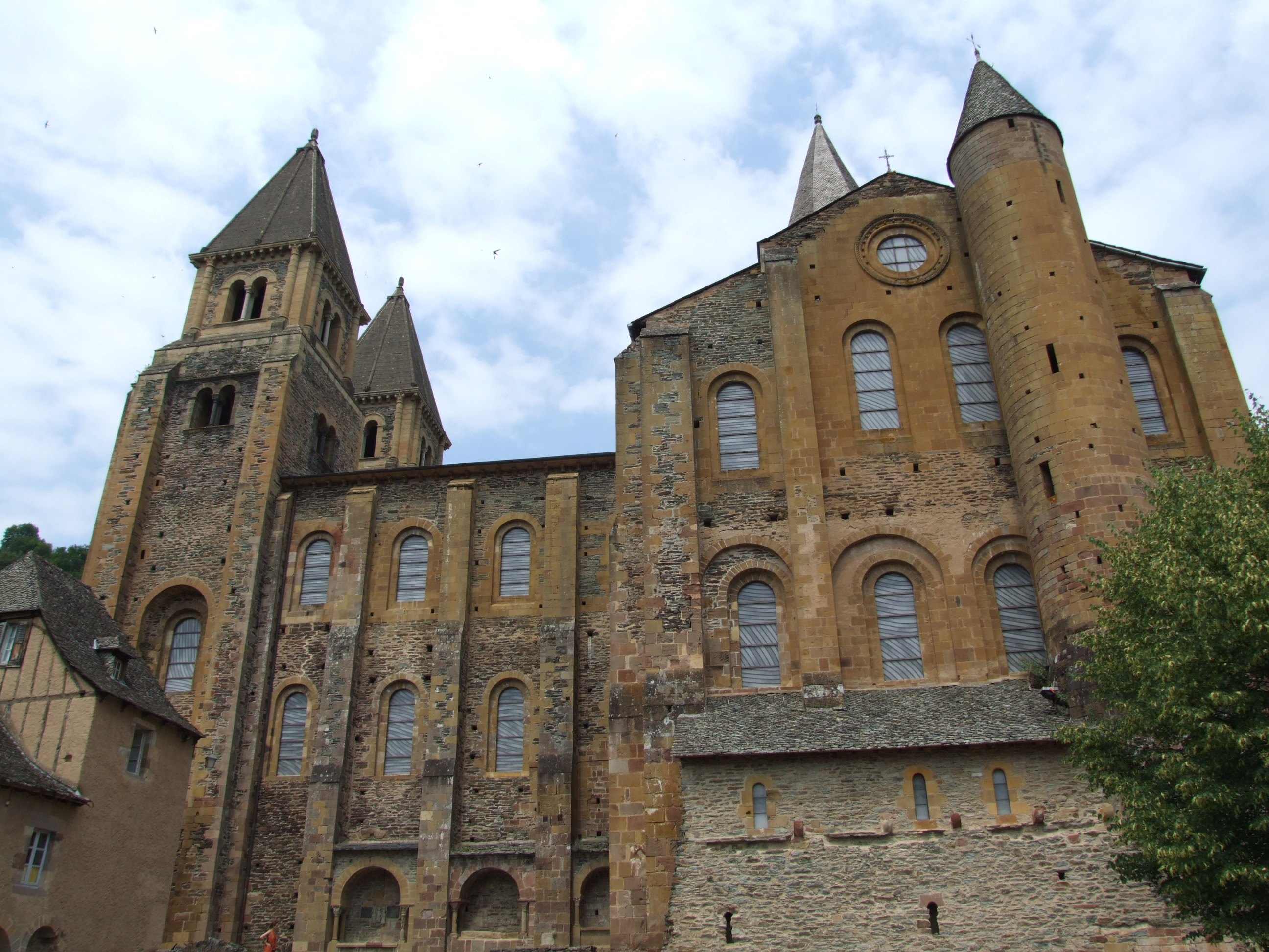 Conques, Aveyron, FRANCE